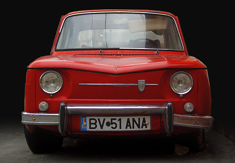 A Dacia 1100, based on the Renault 8, built between 1968 and 1971. The vehicle is registred in the Romanian Braşov County.